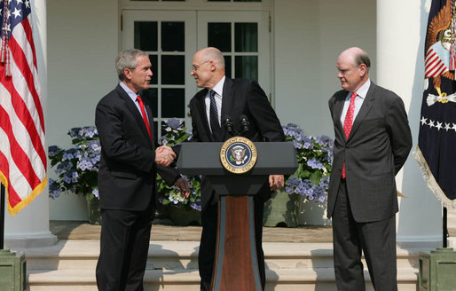 President George W. Bush shakes the hand of Henry Paulson after nominating him Tuesday, May 30, 2006, as Treasury Secretary to replace Secretary John Snow, right, who announced his resignation. White House photo by Shealah Craighead.